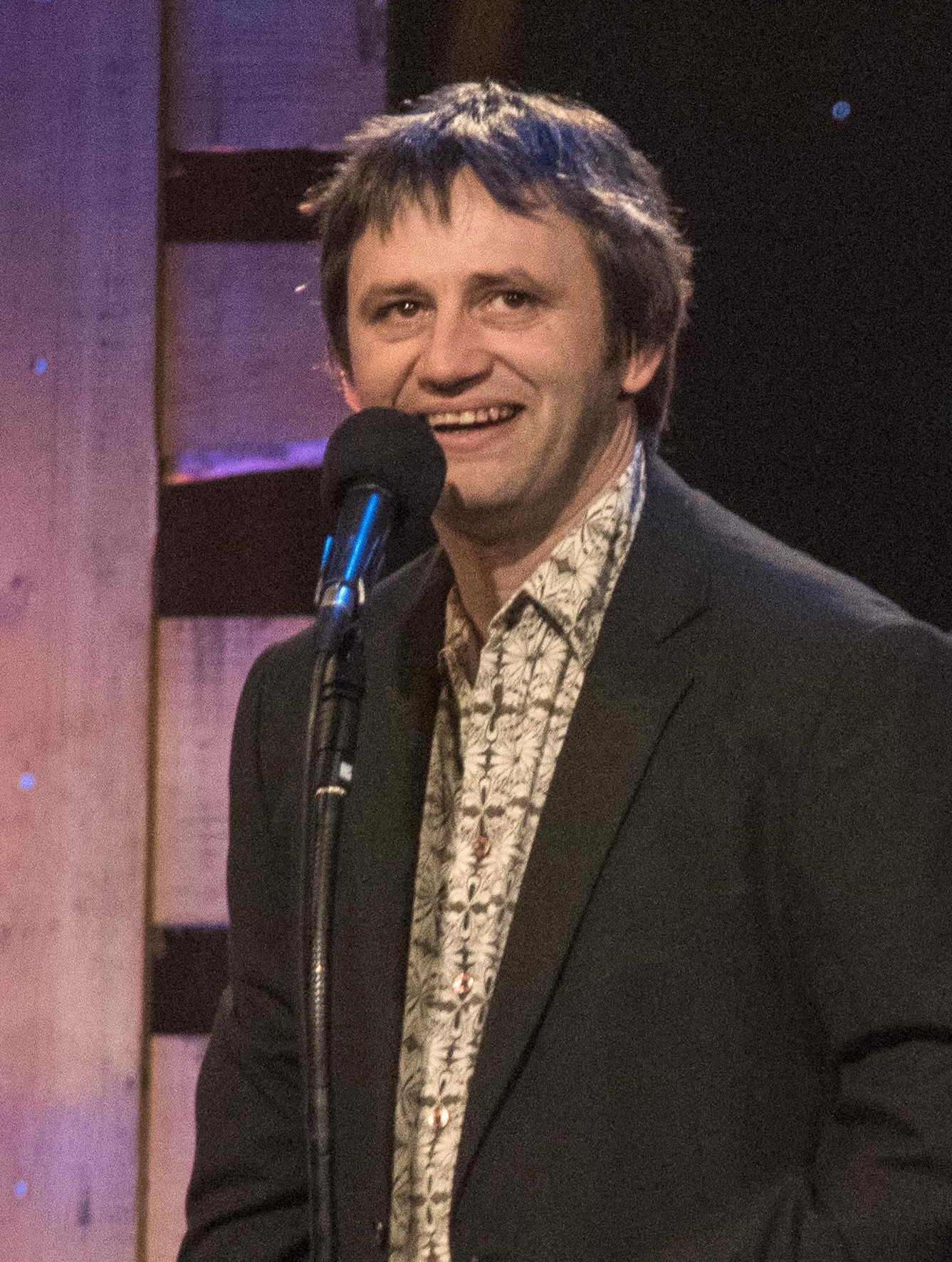 BBC Radio 2 Folk Awards 2016 at The Royal Albert Hall